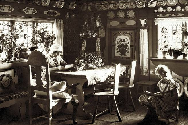 Photograph of Marie Krøyer with her daughter Margita in Alfvéngården, Tällberg, Sweden